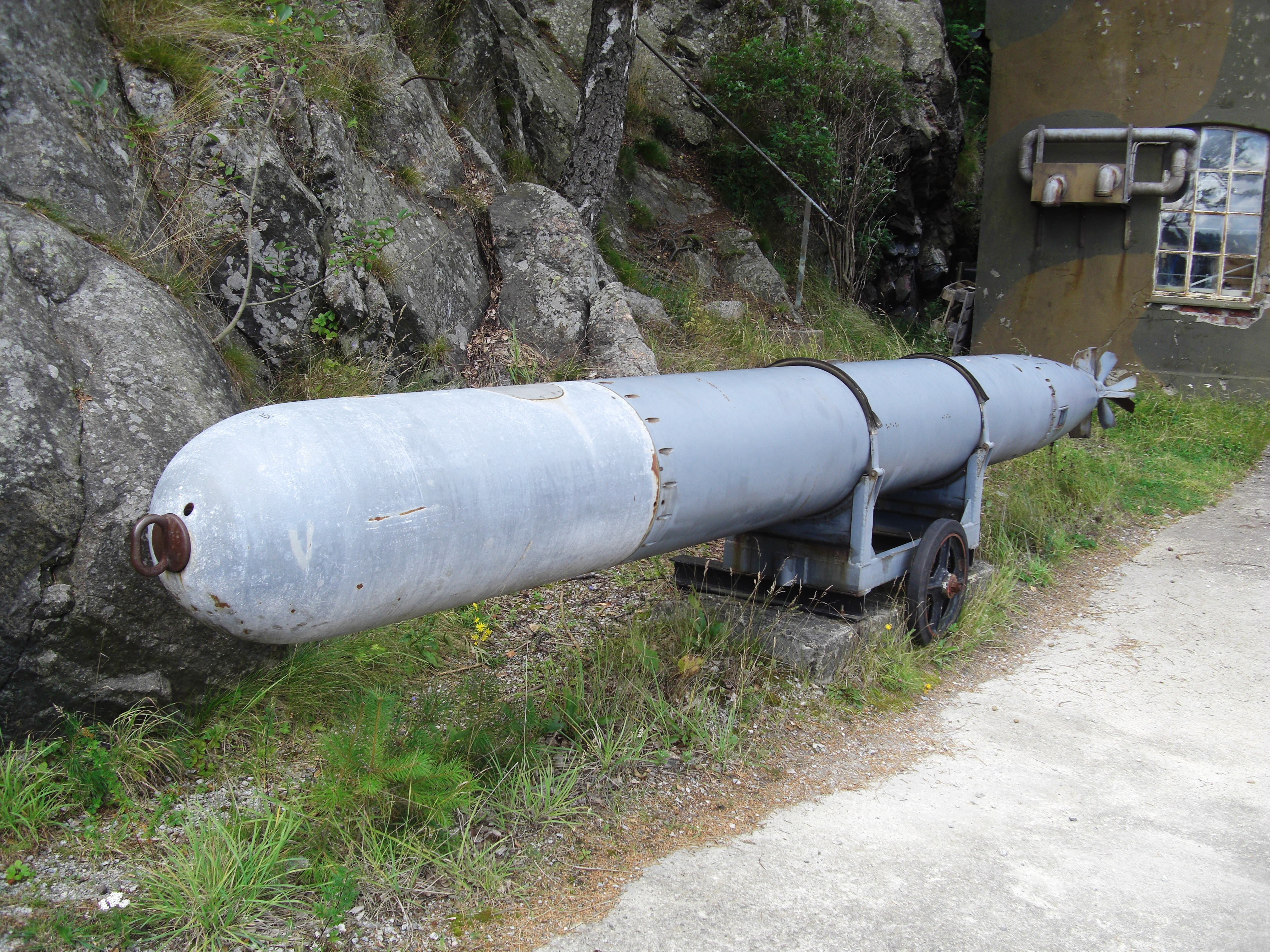 The Torpedo battery, Oscarsborg